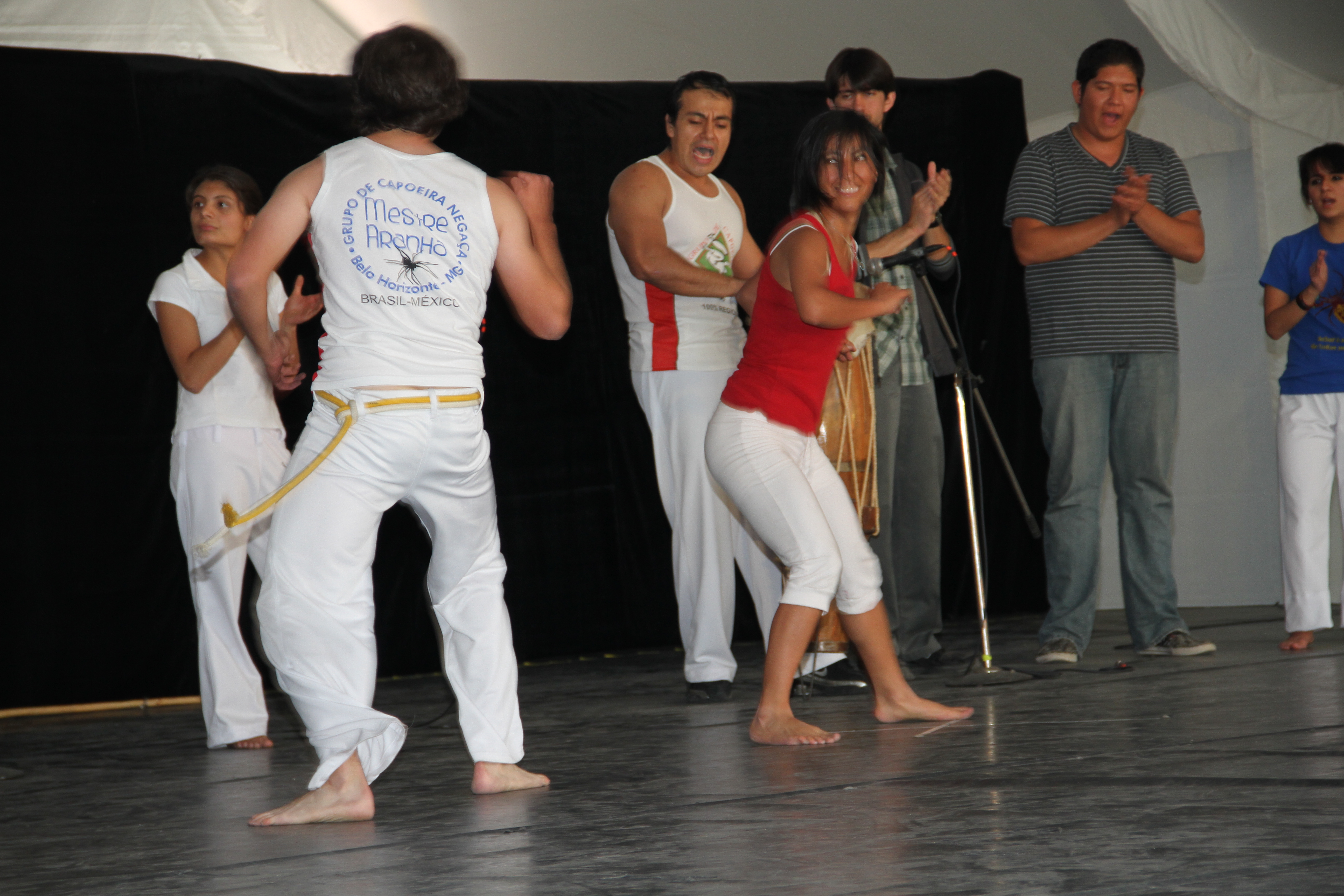 Show of capoeira during the cultural week at university ITESM Campus Ciudad de México